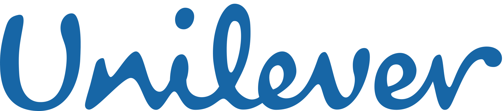 Unilever logo,is an Anglo–Dutch multinational consumer goods company. Its products include foods, beverages, cleaning agents and personal care products. It is the world's third-largest consumer goods company measured by 2011 revenues (after Procter & Gamble and Nestlé) and the world's largest maker of ice cream.